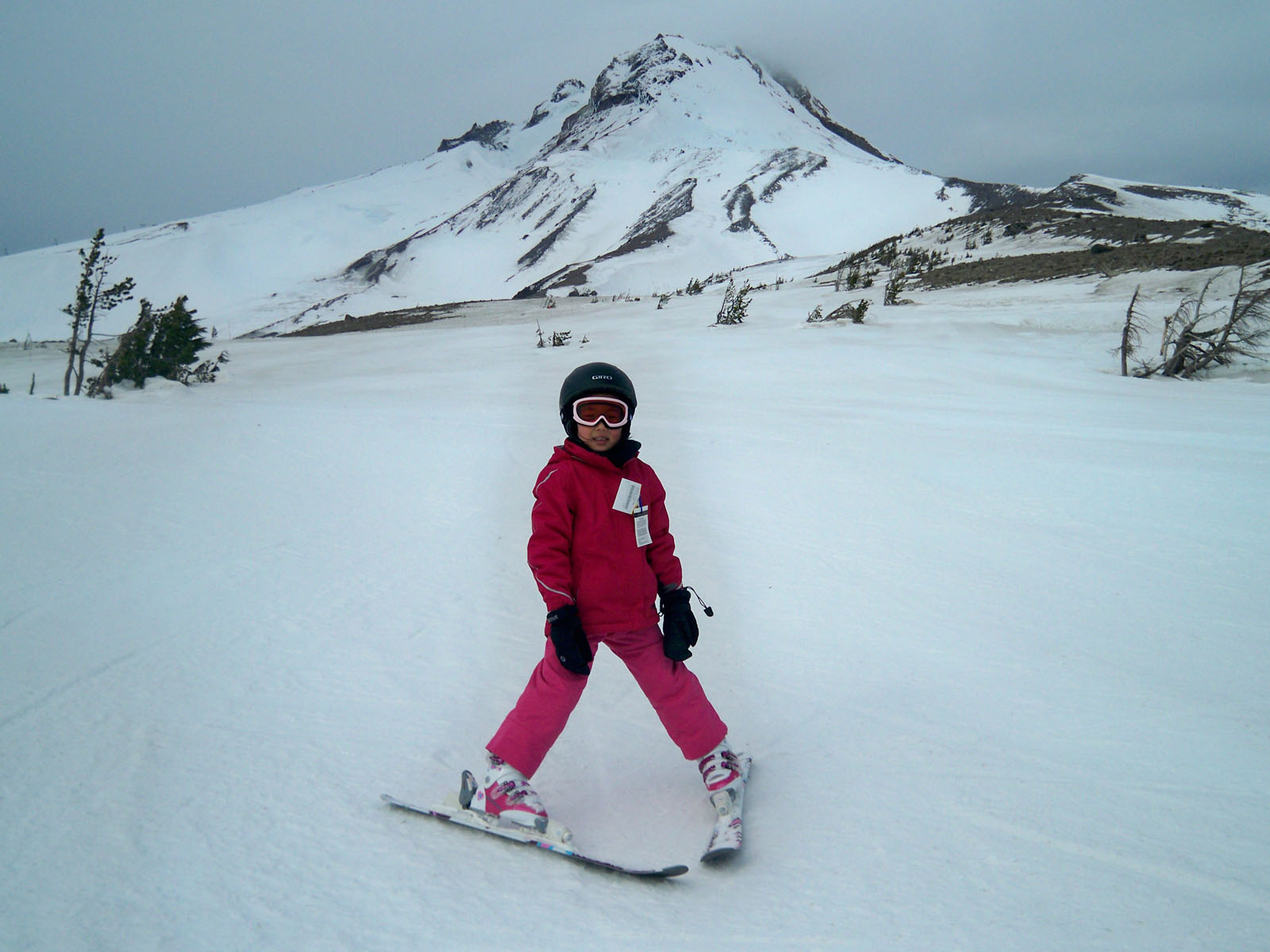 Demonstration of a snowplough turn at Mt. Hood, Oregon